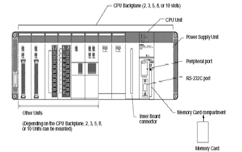 PLC's HardWare